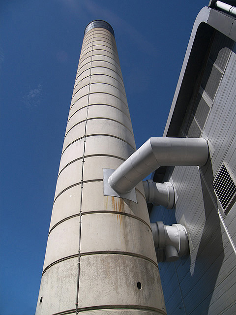 The Borders General Hospital chimney This 3.3m diameter 30m high chimney is located on the west side of the Primary Services Block. There are four flue pipes inside, three from the oil and gas dual fuel boilers and one from the incinerator.